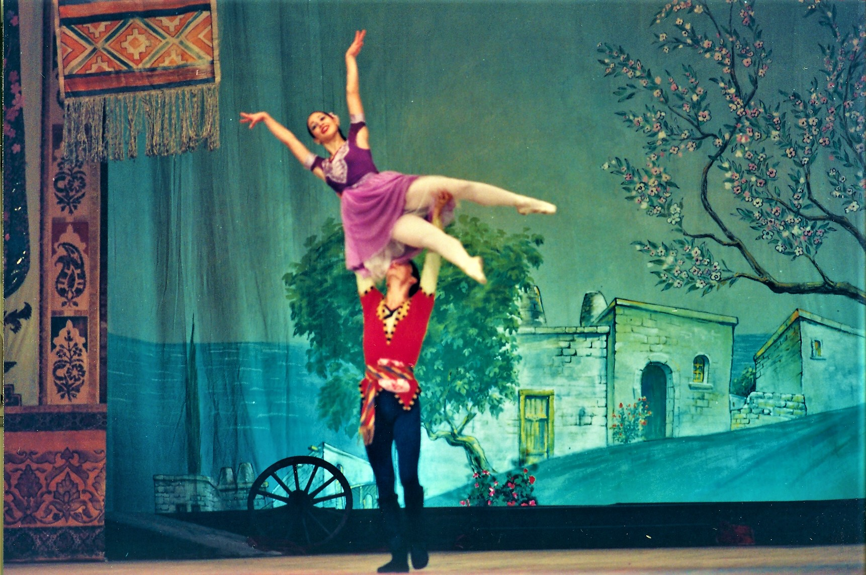 The photo was taken during a performance of "Maiden Tower"